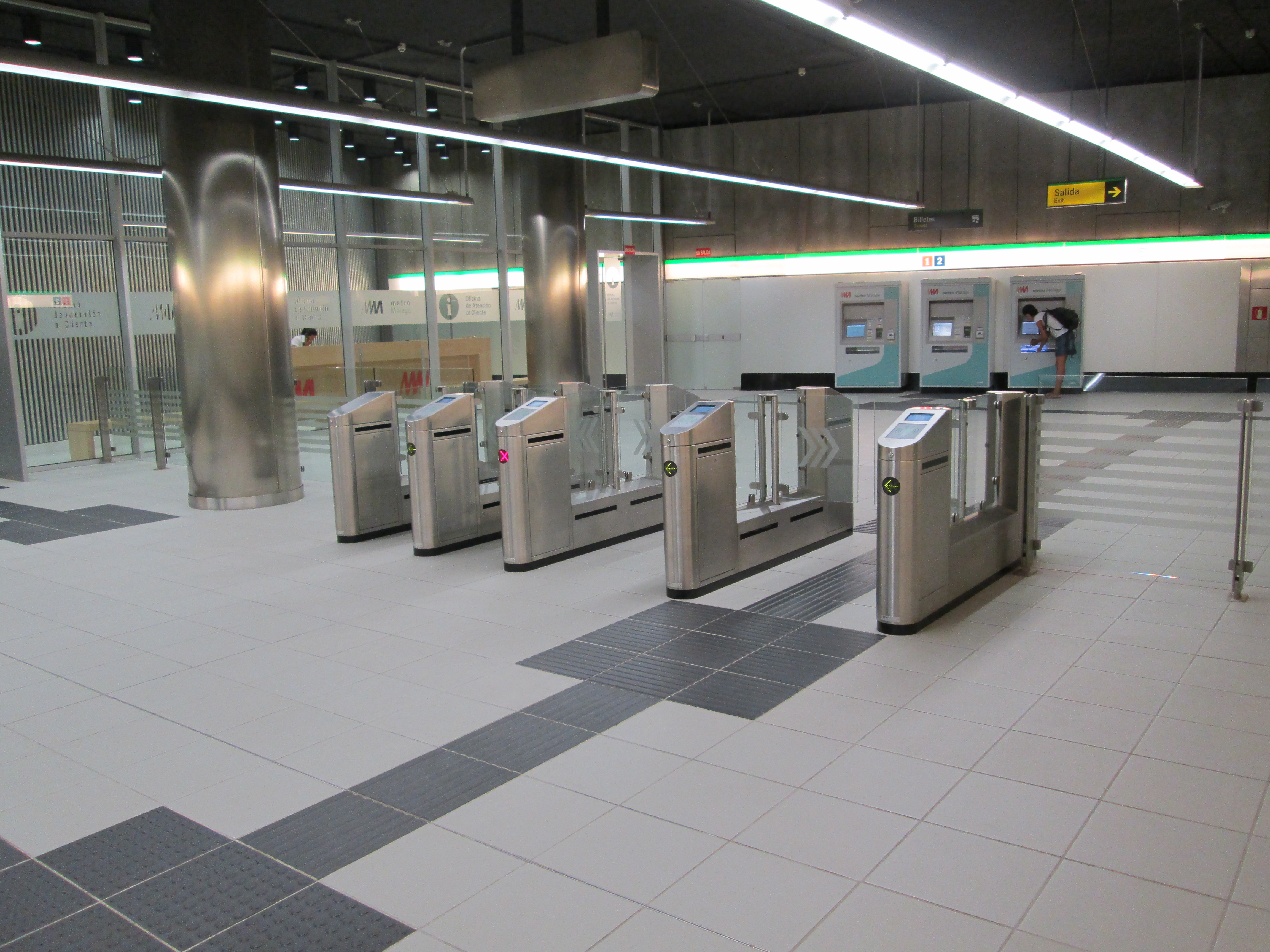 Estación de El Perchel